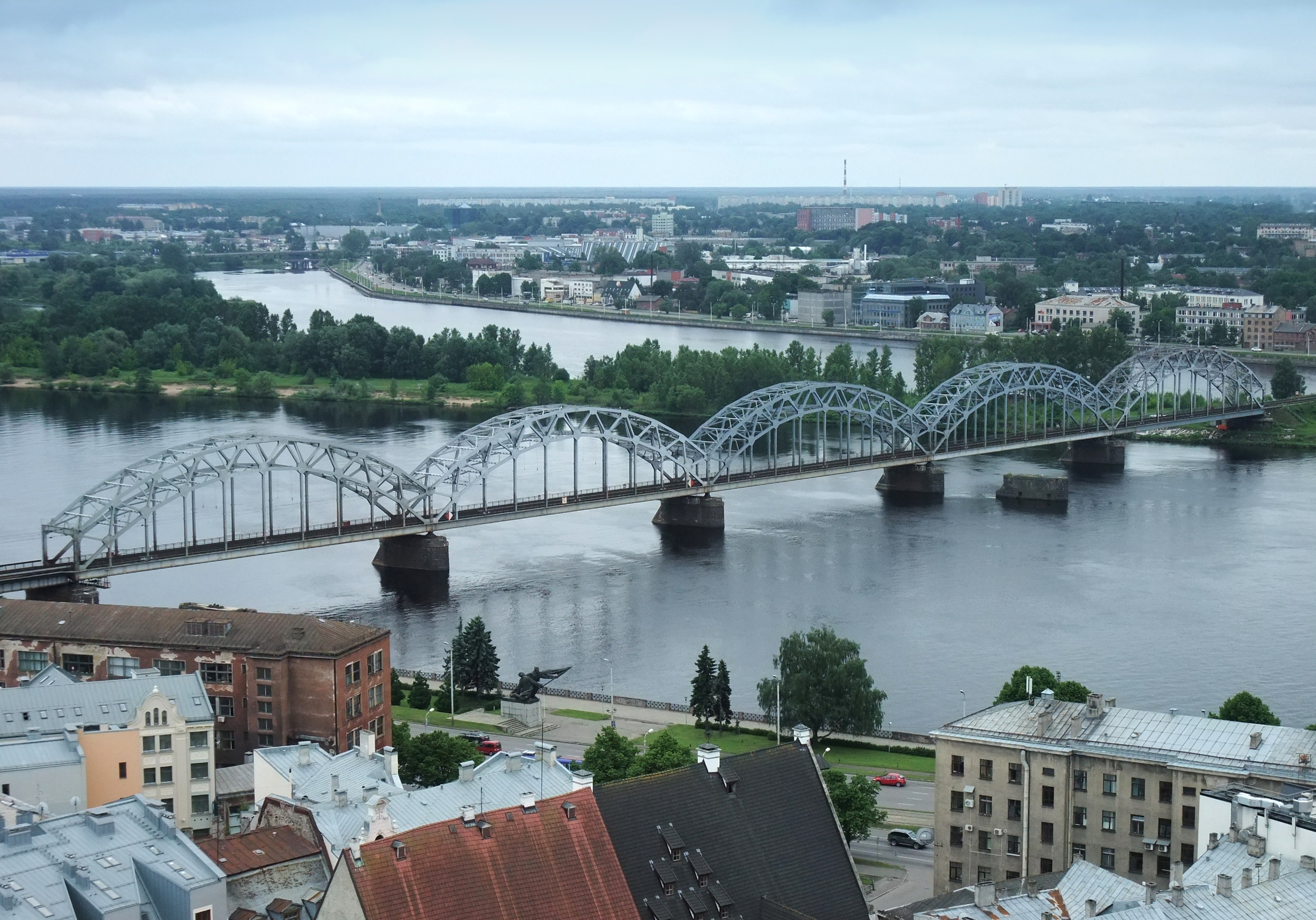 View from St. Peter's Church at Dougava Railway Bridge in Riga, Latvia